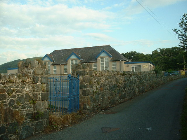 Brynaerau School.